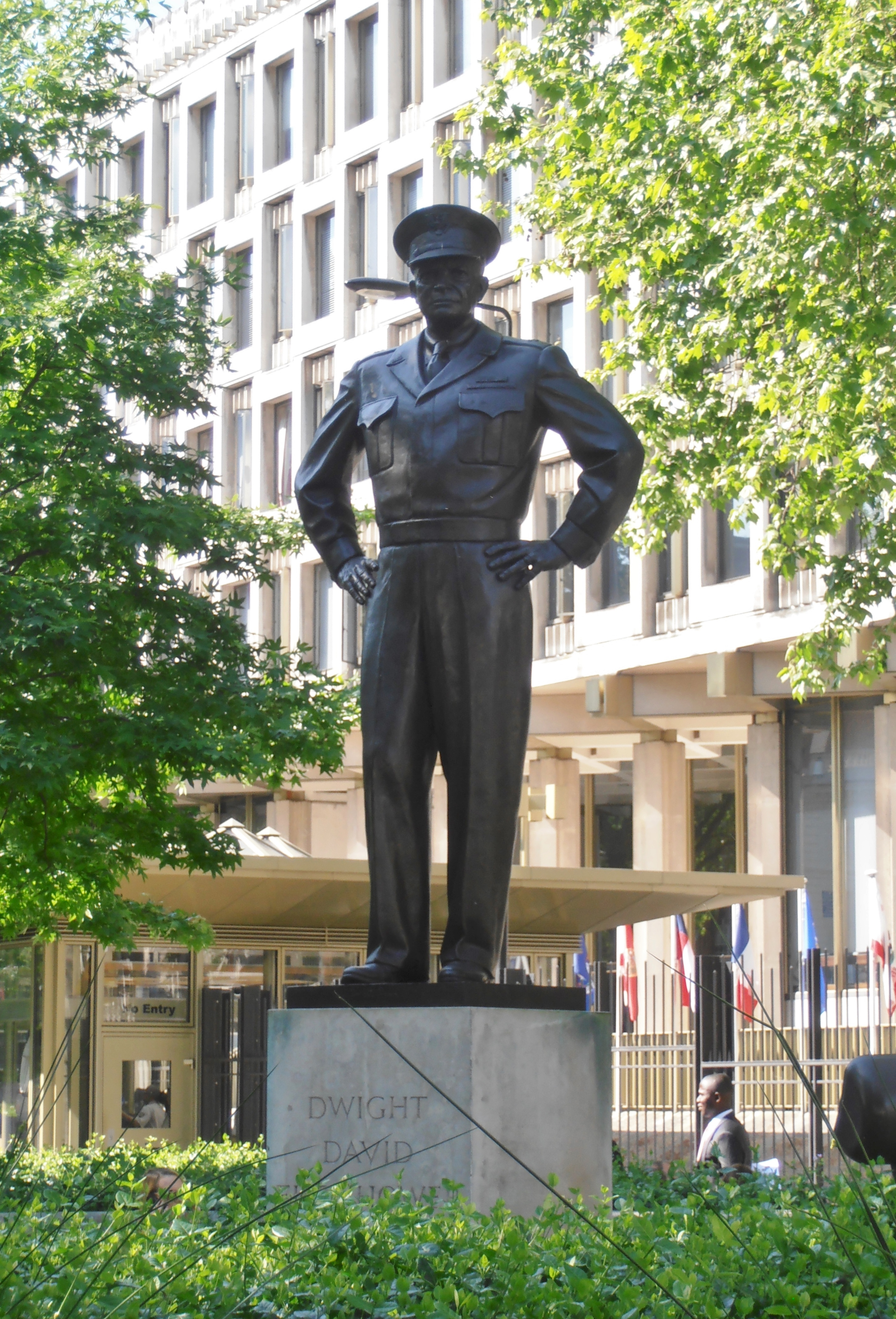 Statue of Dwight David Eisenhower (1969) by Robert Dean. Grosvenor Square, Mayfair, London W1. The making of this file was supported by Wikimedia UK.